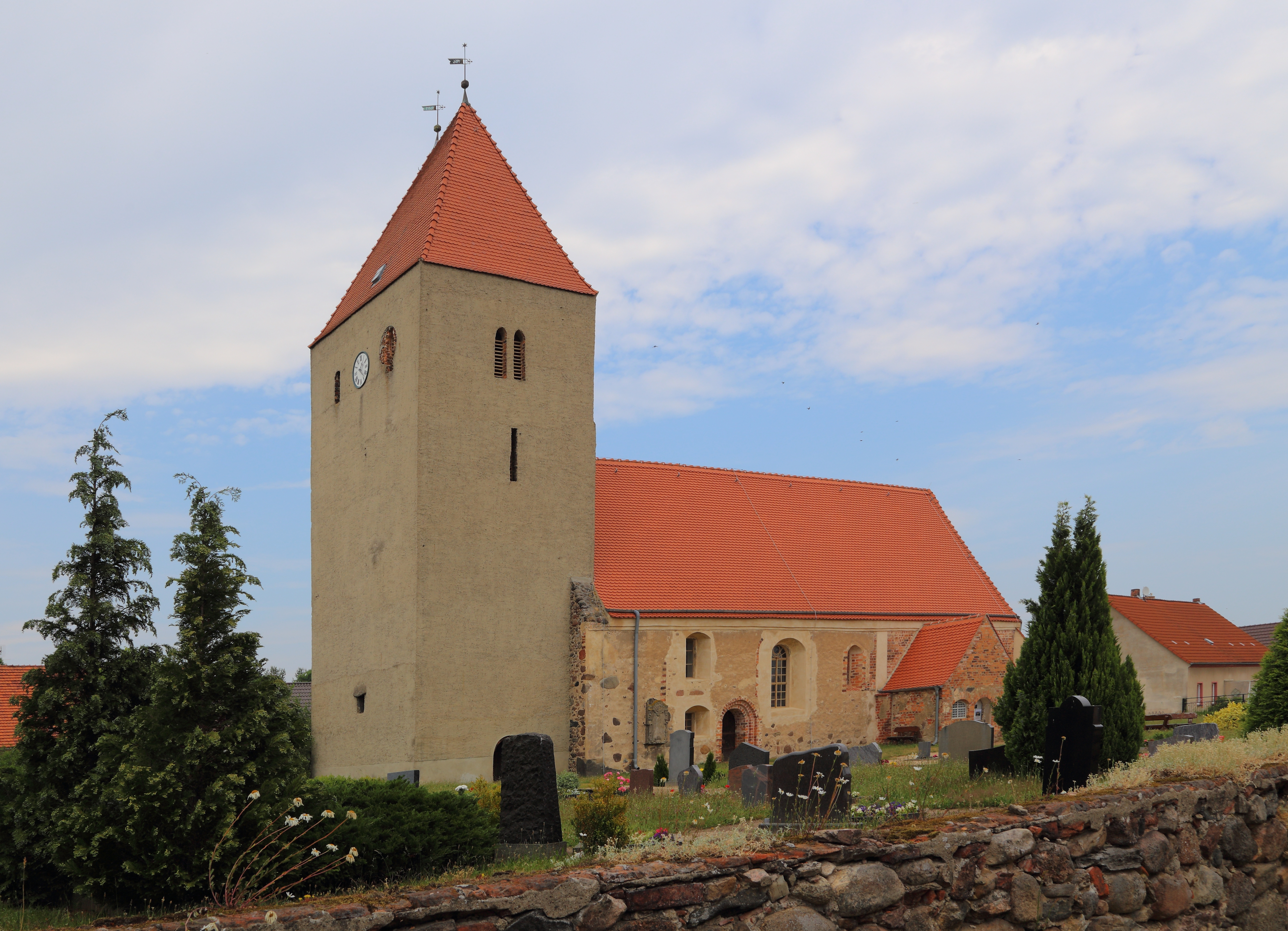 Protestant Village Church (Dorfkirche) of Goßmar, a district of Heideblick, Landkreis Dahme-Spreewald, Brandenburg, Germany.